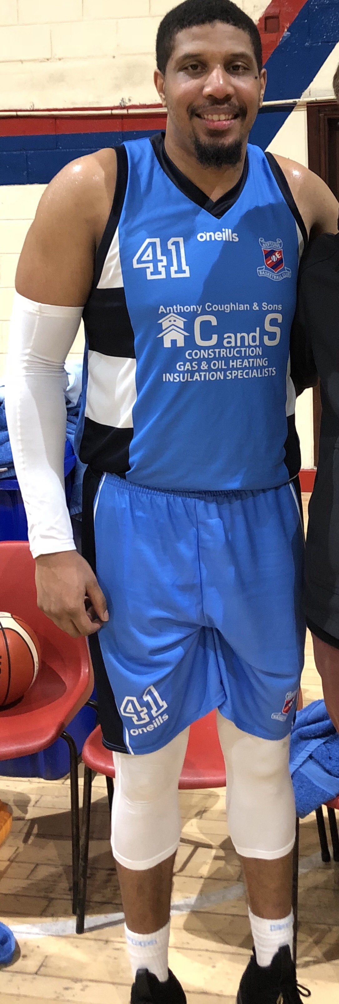 Lehmon Colbert with Neptune Basketball Club